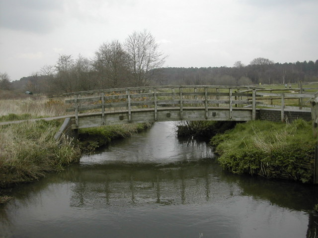 Bridge over the Moors River at Moors Valley Country Park